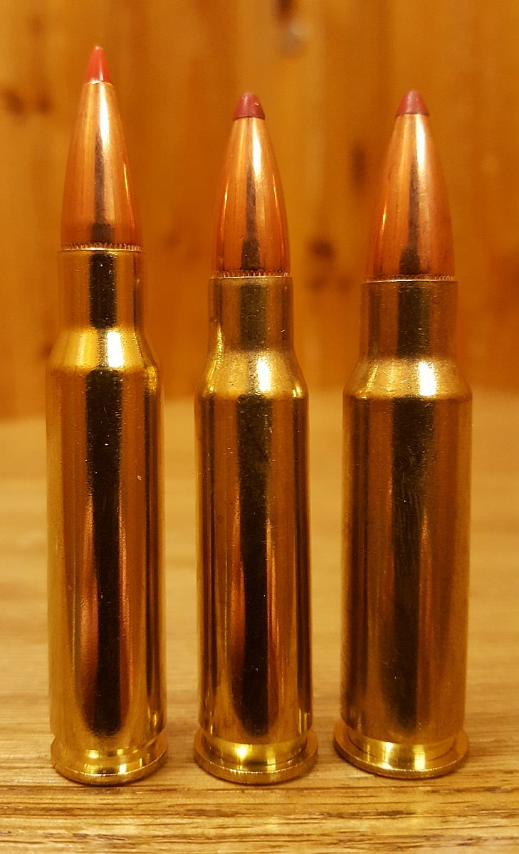 Comparison between .308 Winchester and .308 and .338 Marlin Express